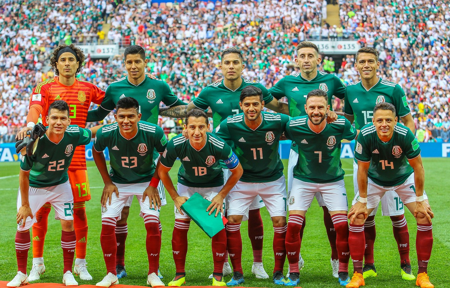 Mexico national association football team